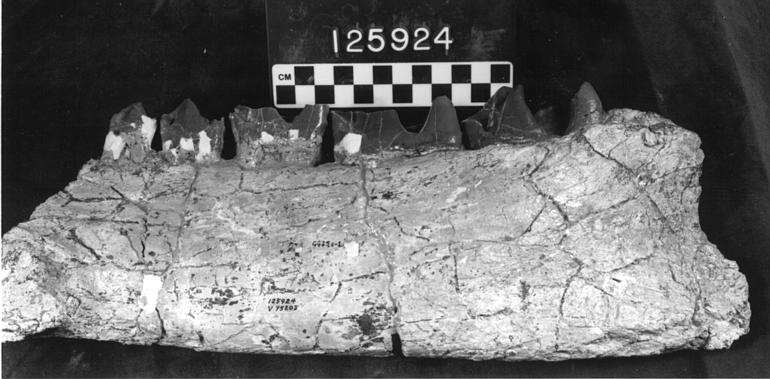 Zaisanamynodon protheroi, University of California Museum of Paleontology